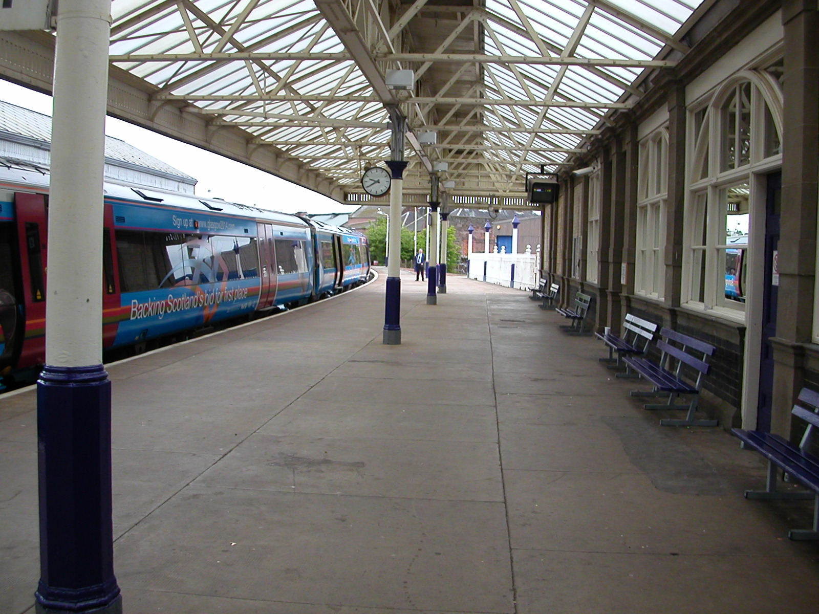 View of southbound platform at Arbroath station, with the 0850 Aberdeen-Edinburgh Waverley service waiting.